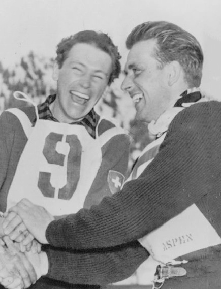 LF57 1950 Wire Photo ZENO COLO FERNAND GROSJEAN JAMES COUTTET Mens Giant Slalom